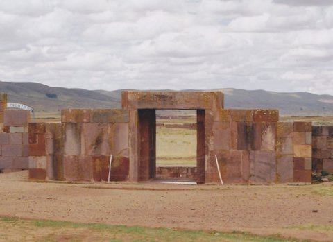 Tiwanaku in Bolivia